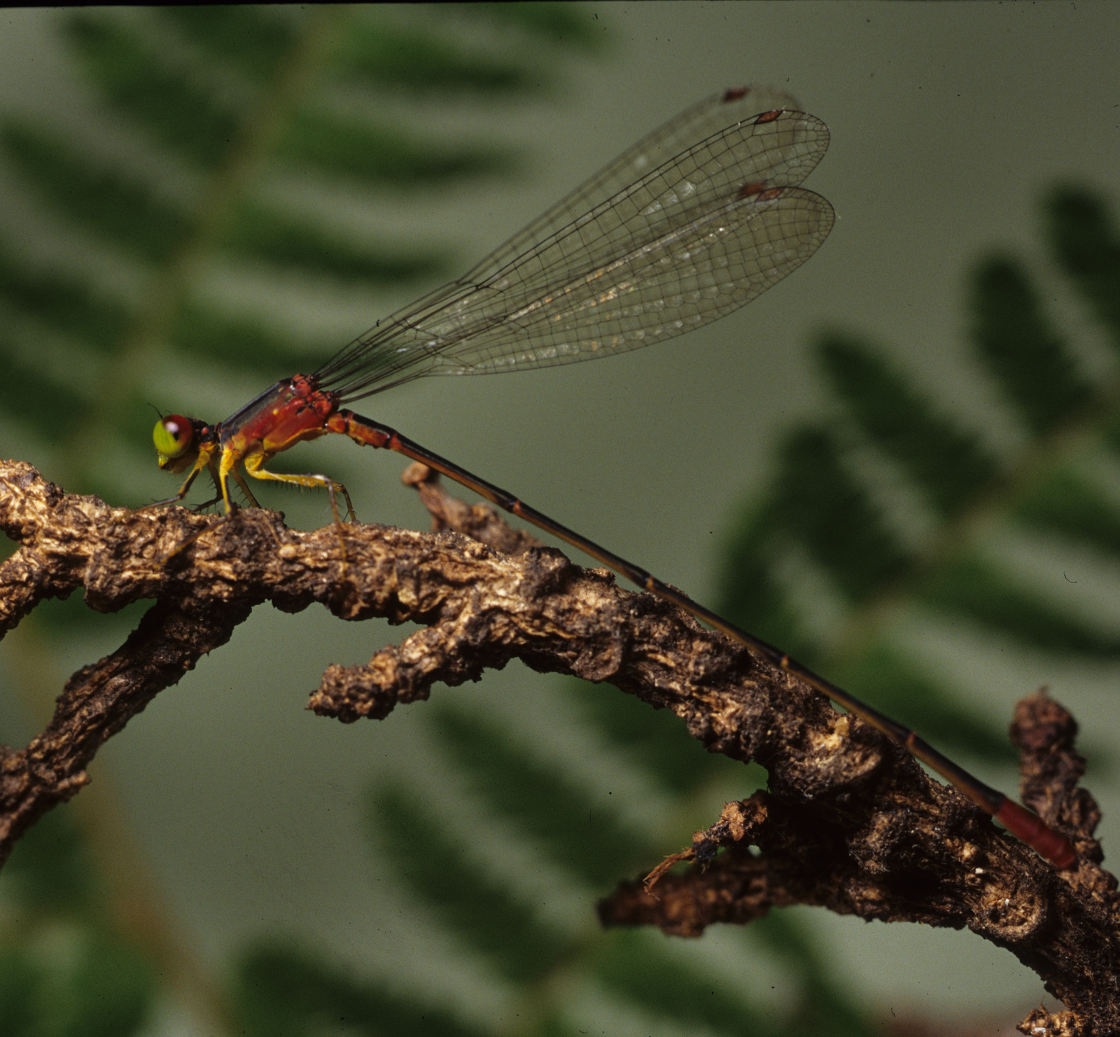 Megalagrion nigrohamatum nigrolineatum, O'ahu Male blackline Hawaiian damselfly Photo: Dan Polhemus